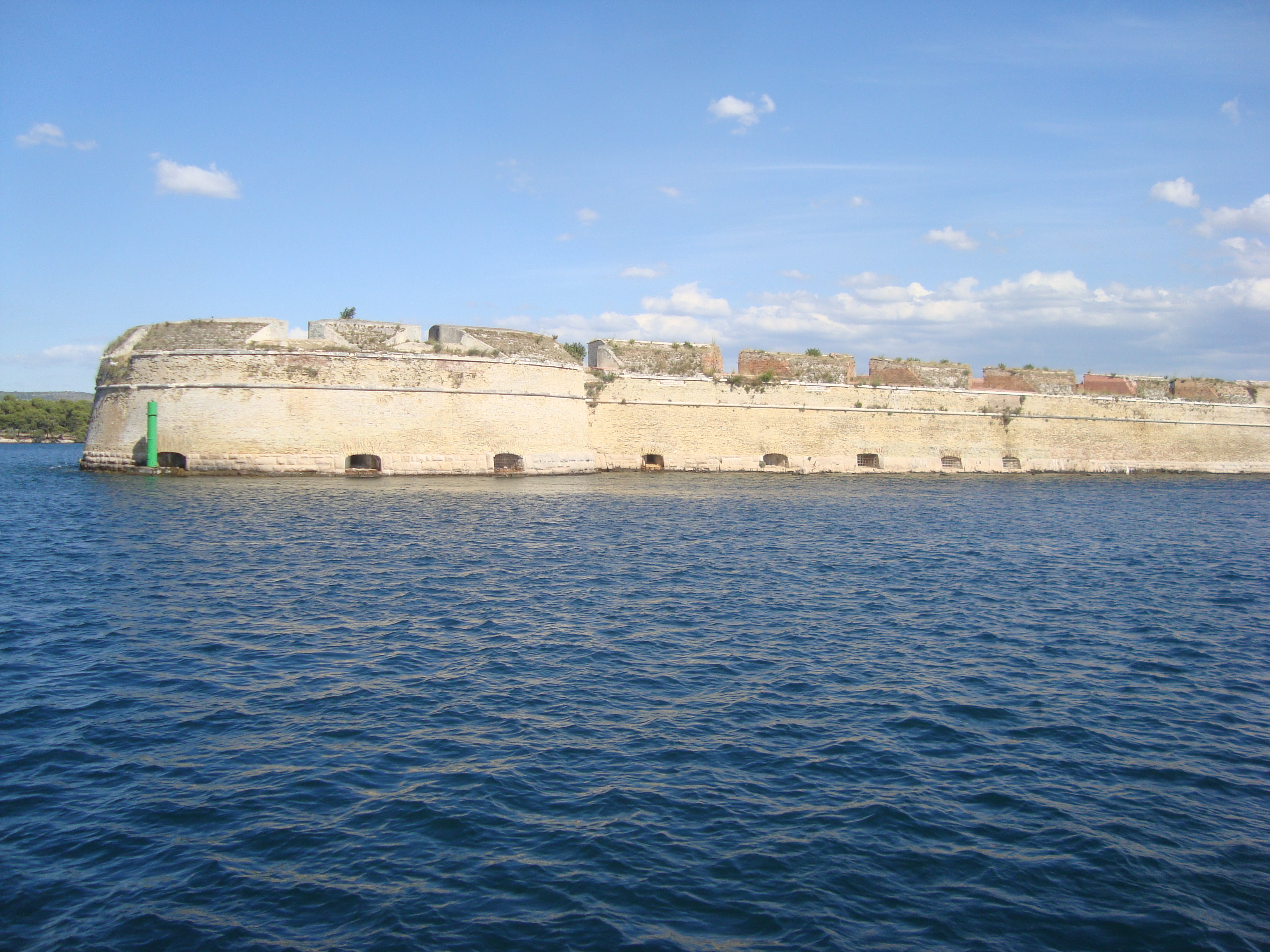 Saint-Nicholas Fortress in Šibenik